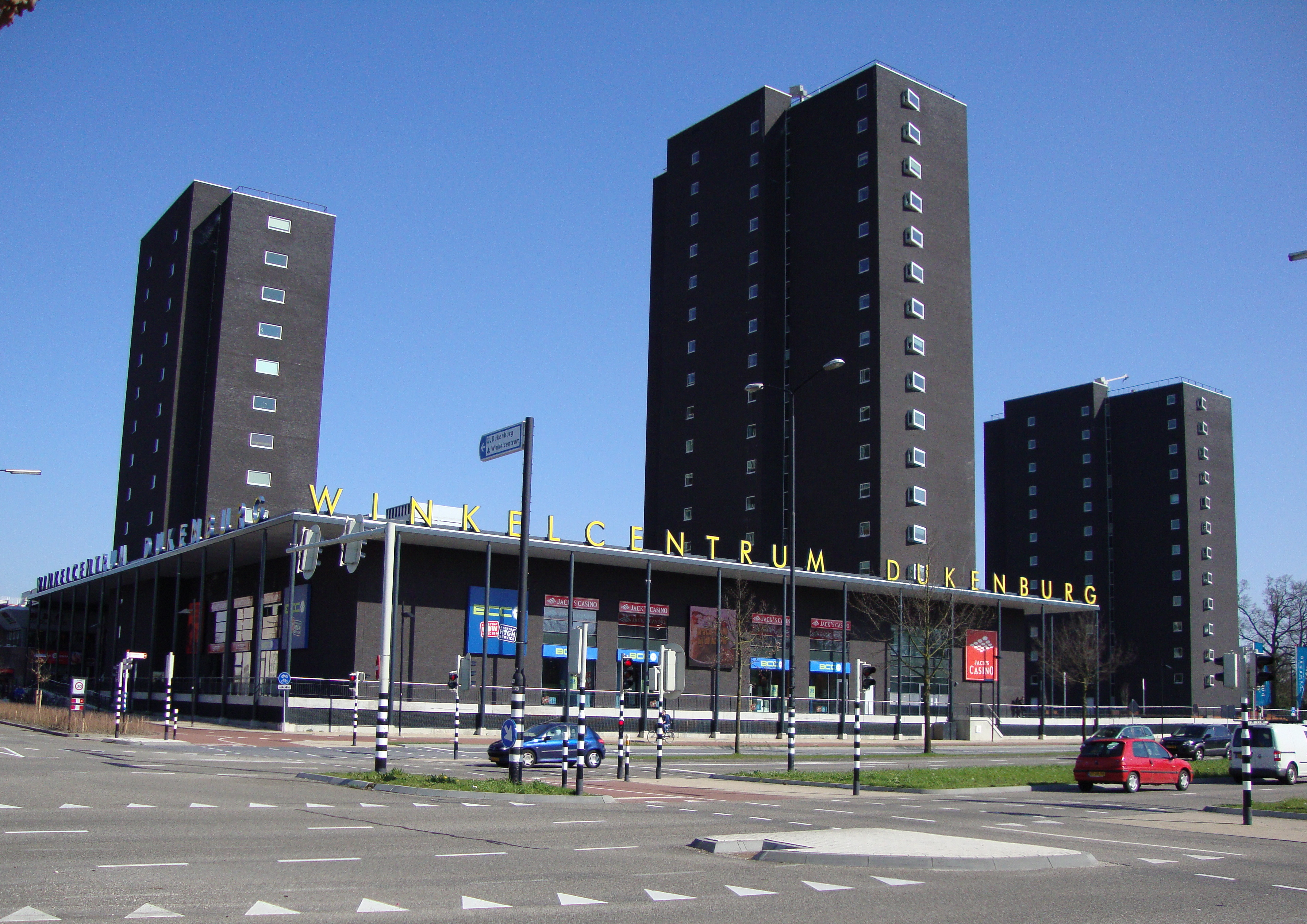 Nijmegen (Gld, Netherlands), Winkelcentrum Dukenburg (shopping mall), extension build in 2008-9. Above it are apartment buildings